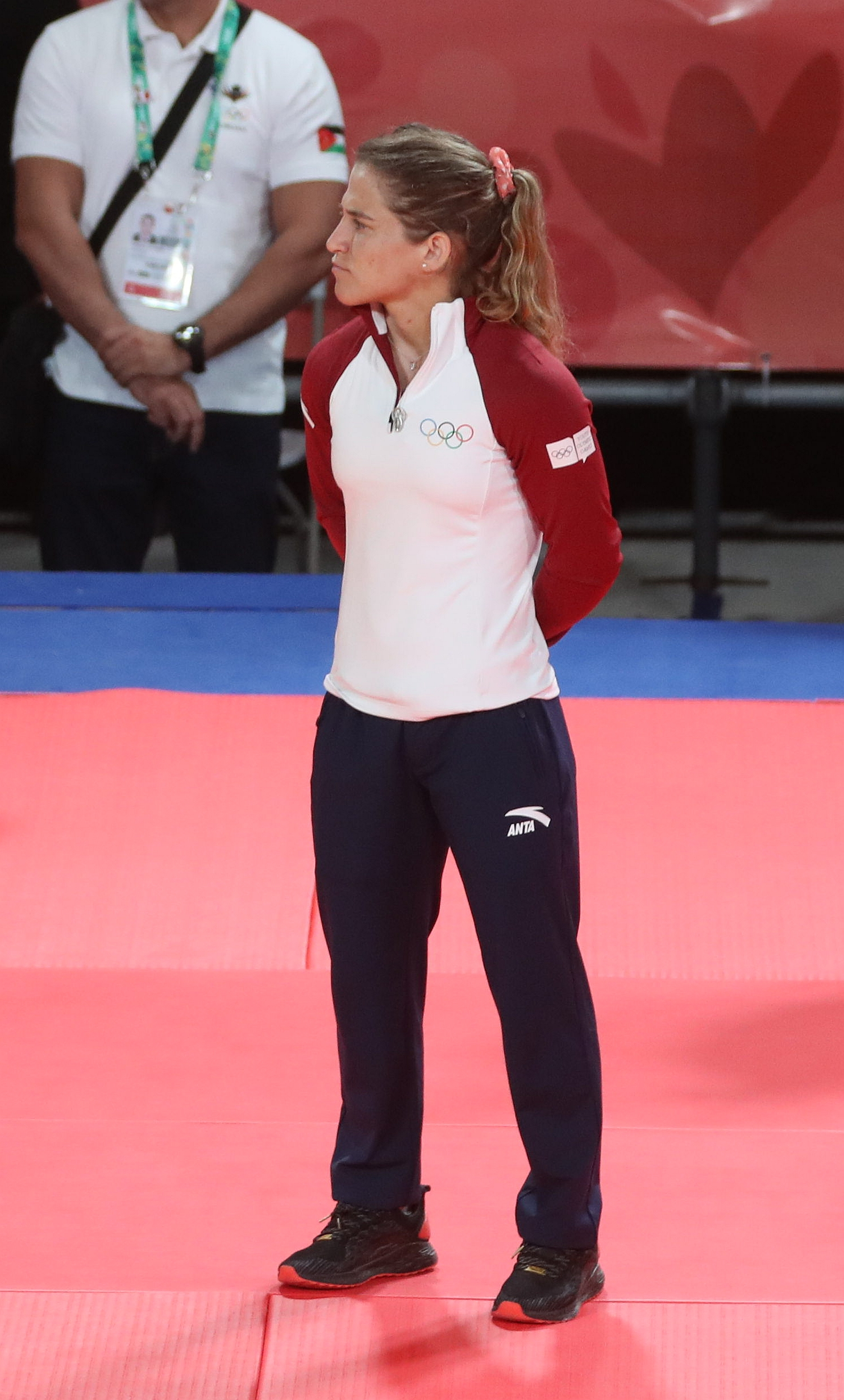 Victory ceremony of the judo girls' 44 kg at the 2018 Summer Youth Olympics in Buenos Aires on 7 October 2018.